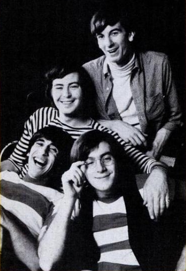 Trade ad for The Lovin' Spoonful's single "Do You Believe In Magic".